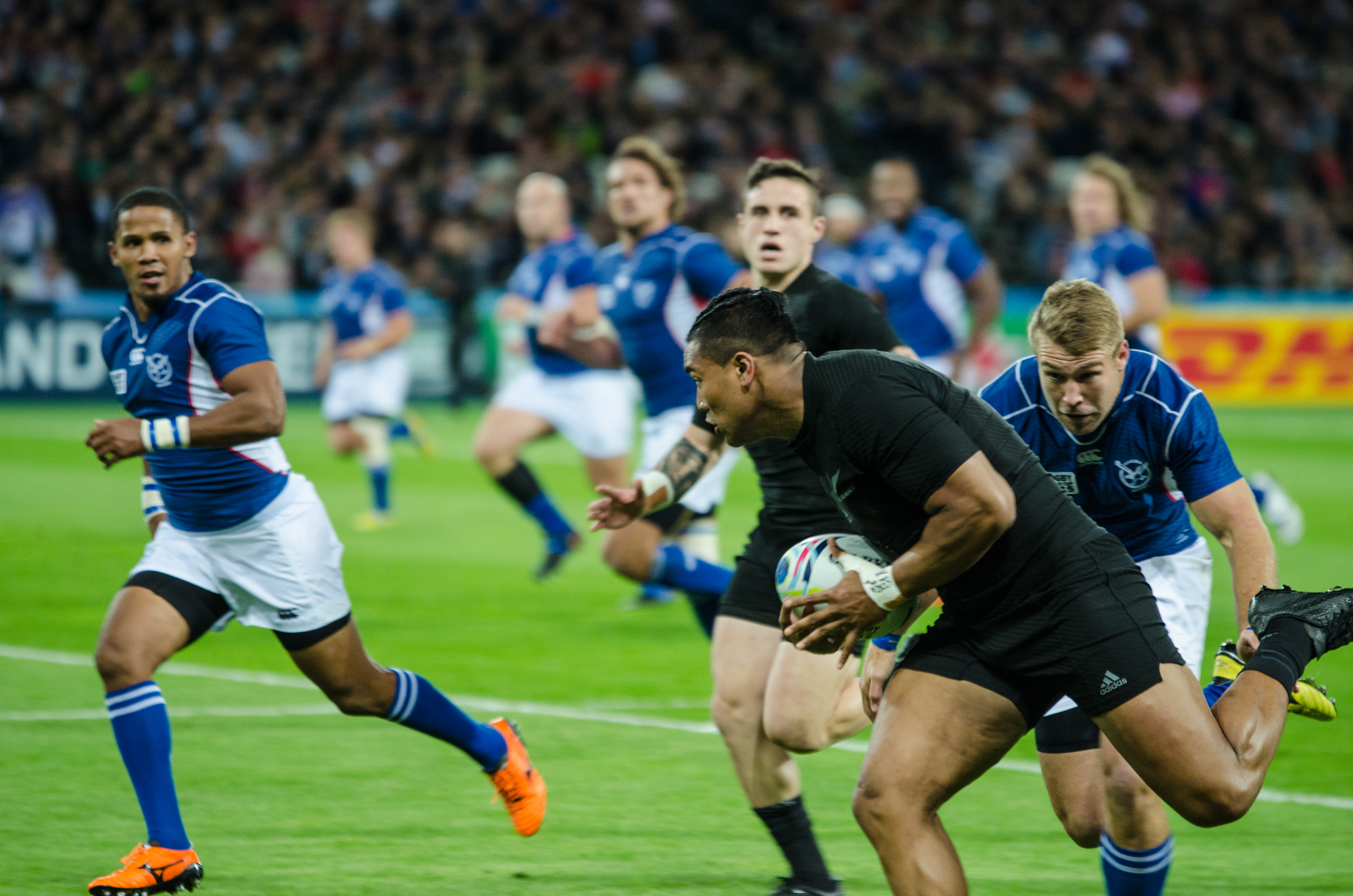 Game between New Zealand and Namibia in the 2015 Rugby World Cup at Olympic Park.